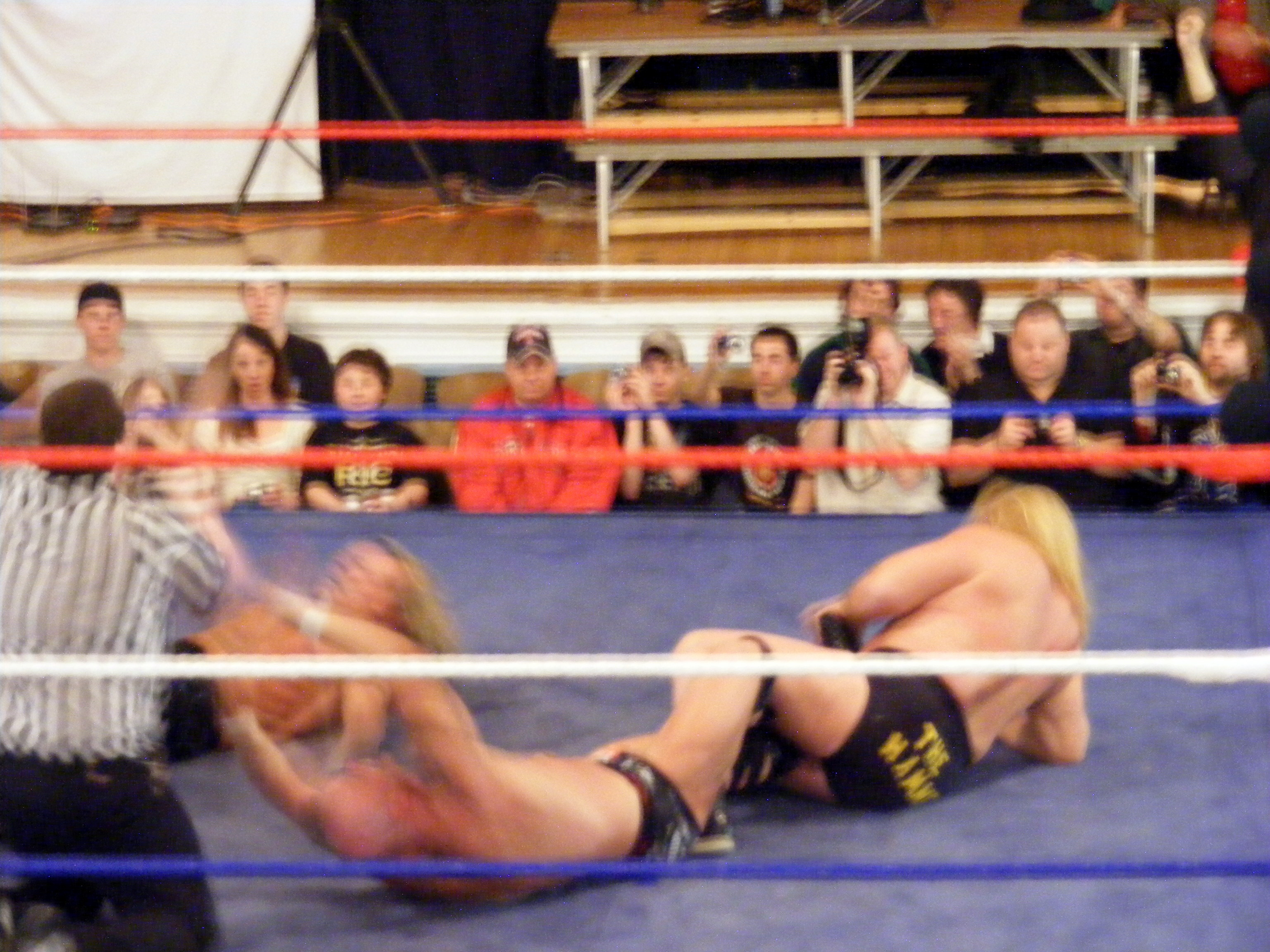 BTW 3/29/09 Webster, MA Figure four leg lock performed by professional wrestlers